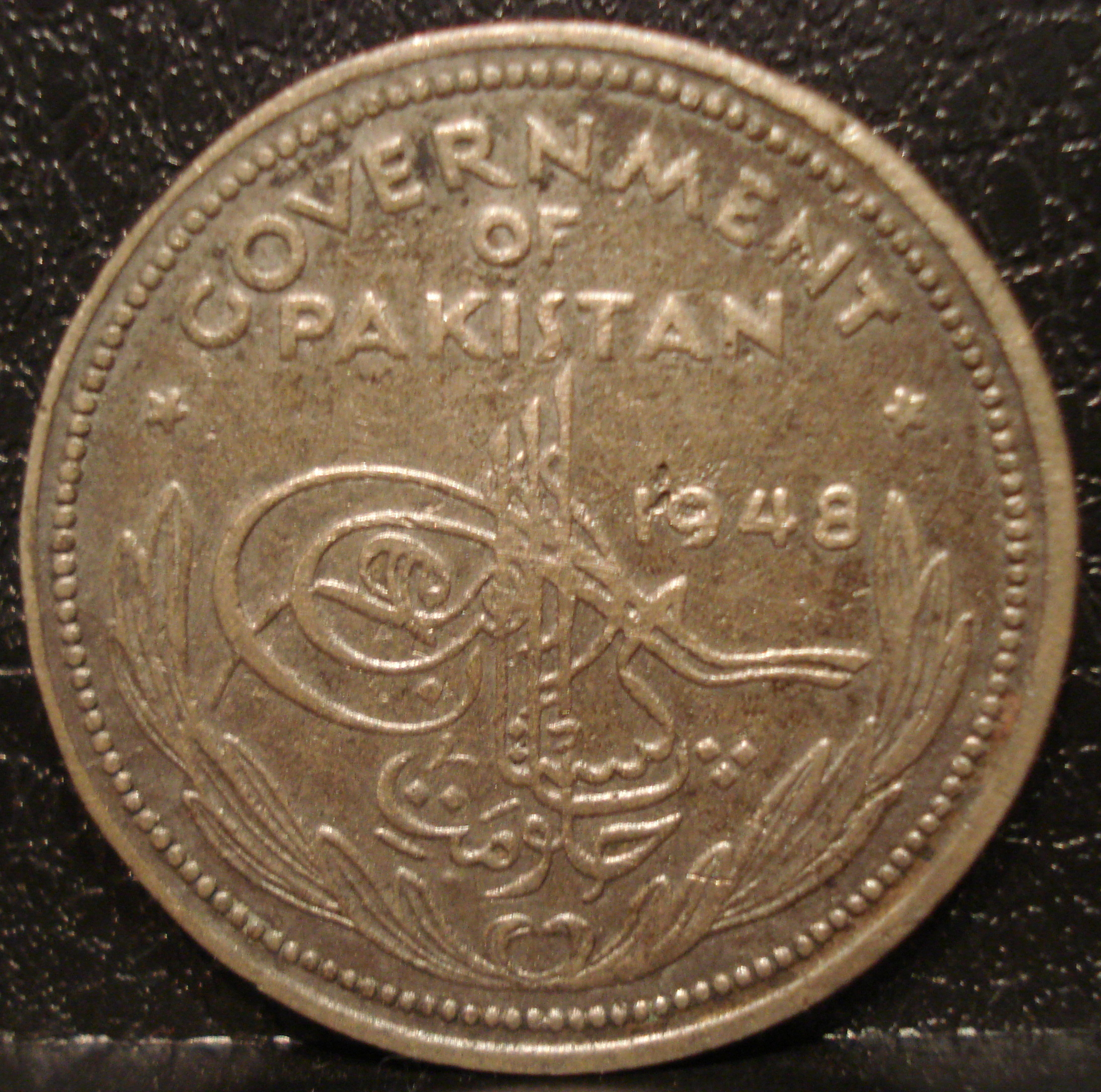 First one rupee coin from Govt. of Pakistan, reverse, 1948. It was made of nickel